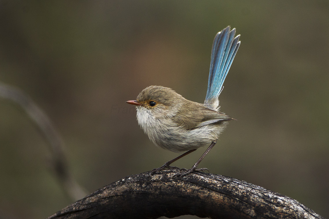 Splendid Fairywren ( eclipse ) - Wyperfeld NP - Victoria_S4E4097